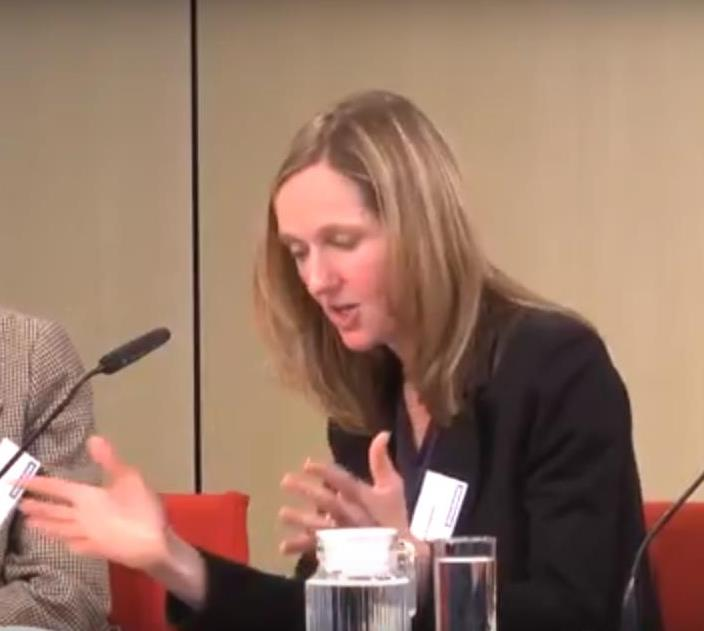 Dutch lawyer Liesbeth Zegveld. Panel Akademie der Künste Colonial Repercussions - Legal interventions against (post-)colonial crimes. 27 Jan. 2018